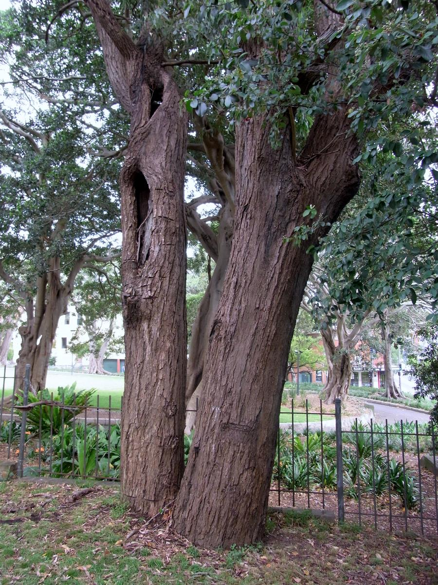 Eucalyptus paniculata, original forest remnant tree, St Johns Church, Glebe, NSW, Australia